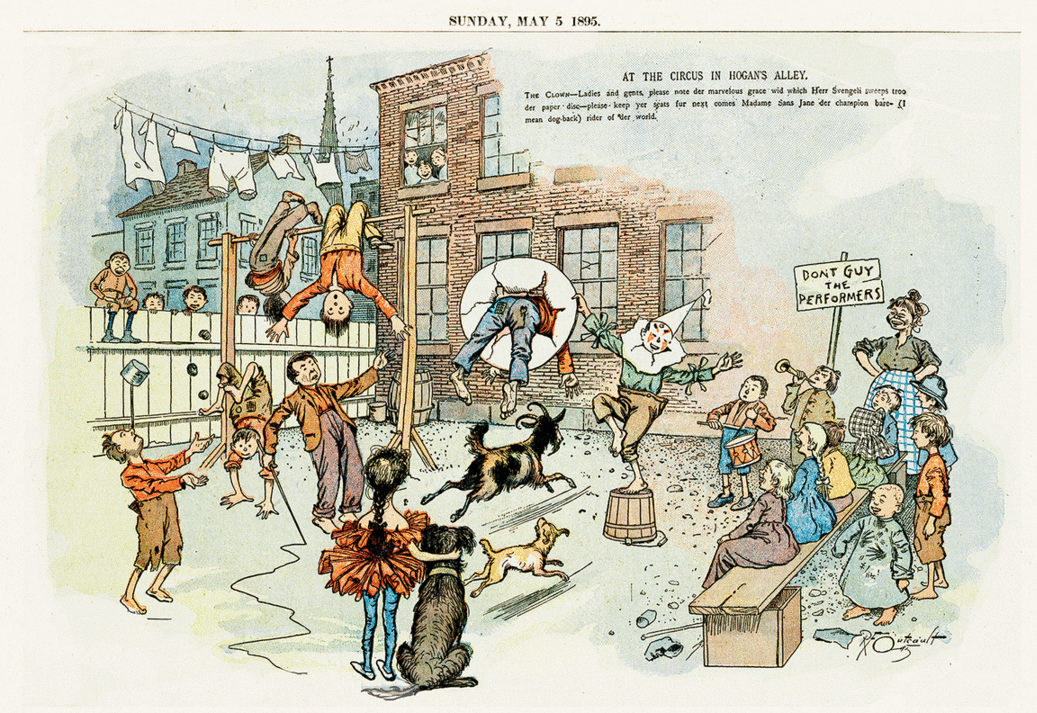 Children in an alleyway play at being circus performers. In the lower right, above the signature of cartoonist Richard F. Outcault, is a character who has been identified as the first appearance of Outcault's character "The Yellow Kid" - who, here, is not wearing yellow. The text in this image should be transcribed and included in the description on this page. See also Transcription . The Google OCR tool may be of use in transcribing images.